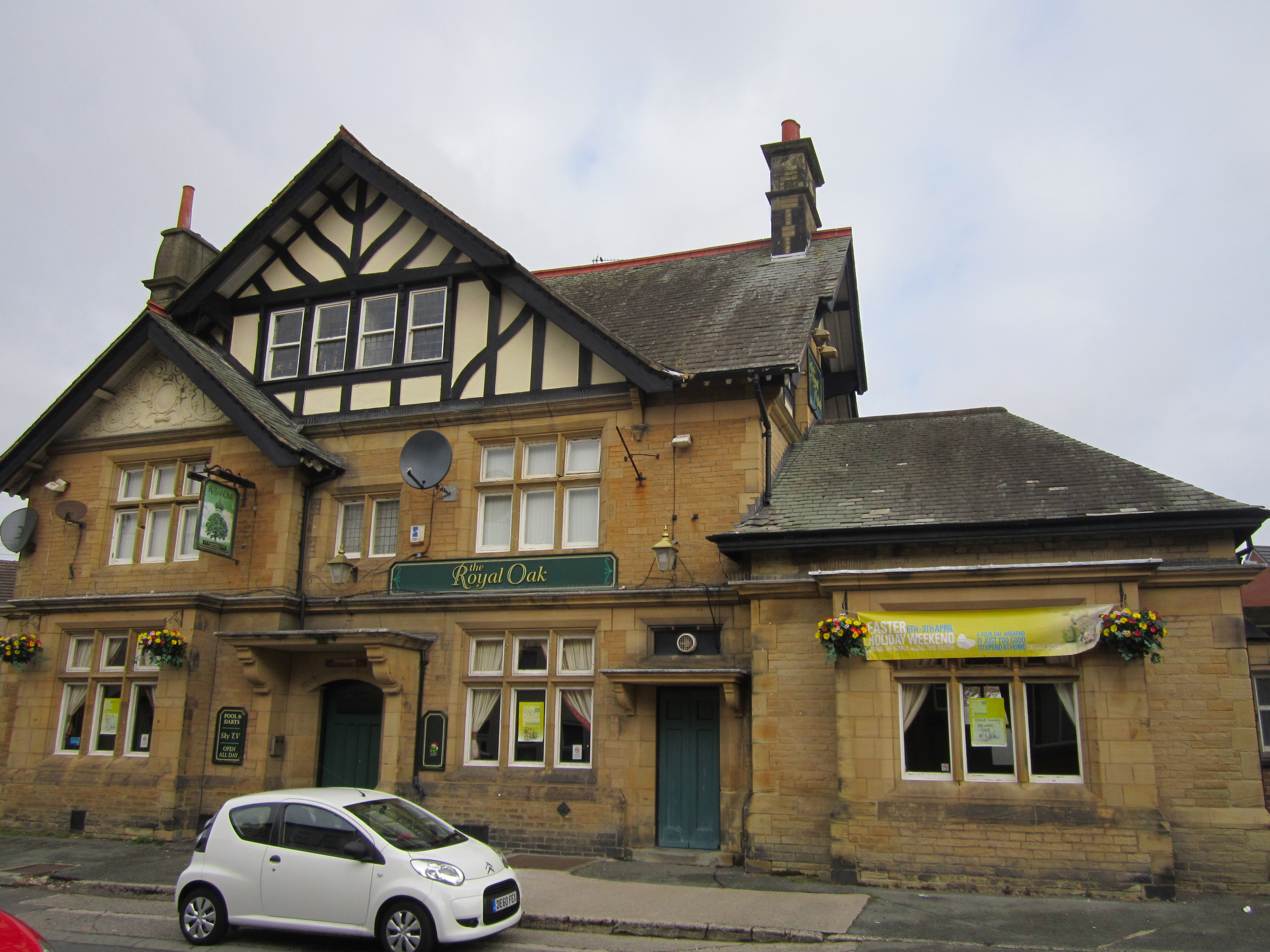 The Royal Oak pub, Warrenhouse Road, Brighton-le-sands, Merseyside, England.